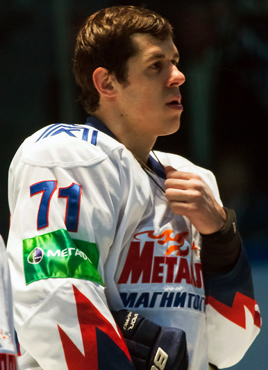 Evgeni Malkin during Amur Khabarovsk - Metallurg Magnitogorsk game in 2012.